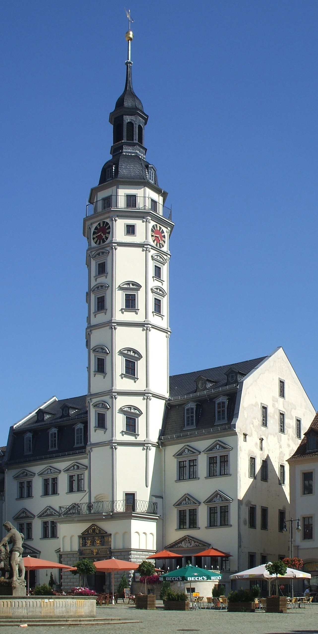 city hall of Gera, Germany